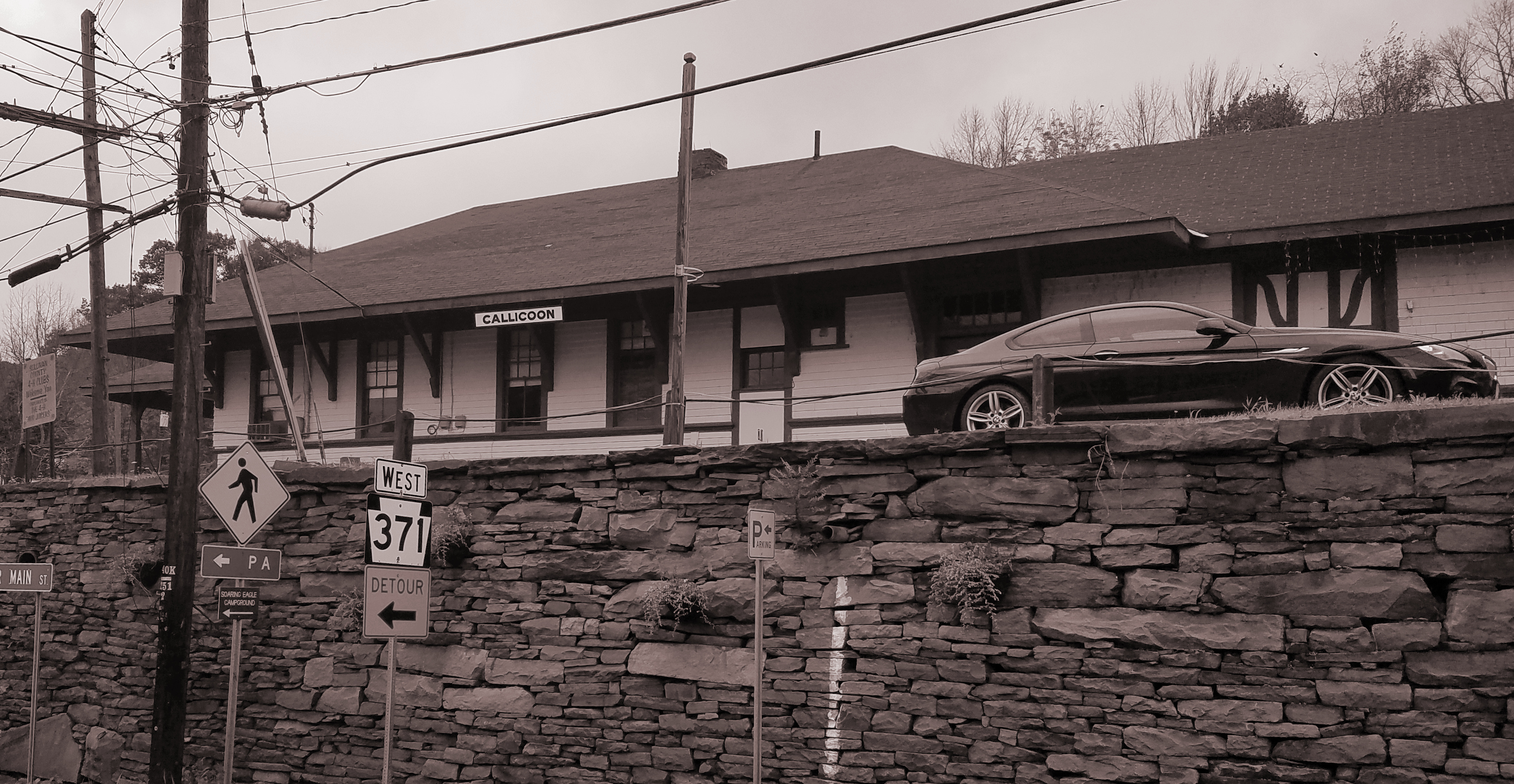 A view of Erie train station at Callicoon from Lower Main St. Callicoon, NY